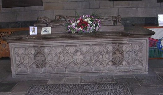 Marjorie Bruce's Sarcophagus